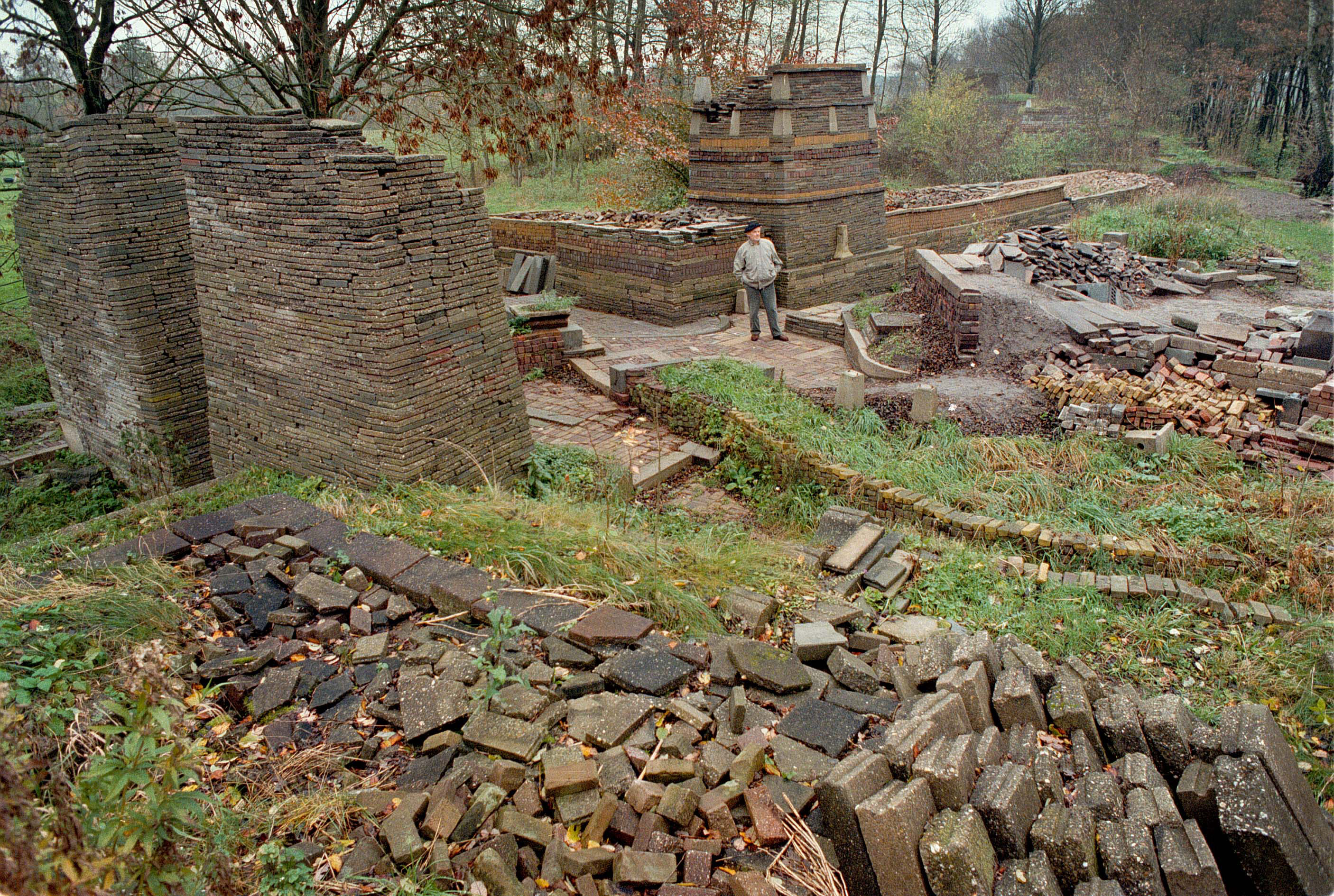 Louis le Roy in zijn ecokathedraal in Mildam / Louis le Roy in his ecocathedral in Mildam